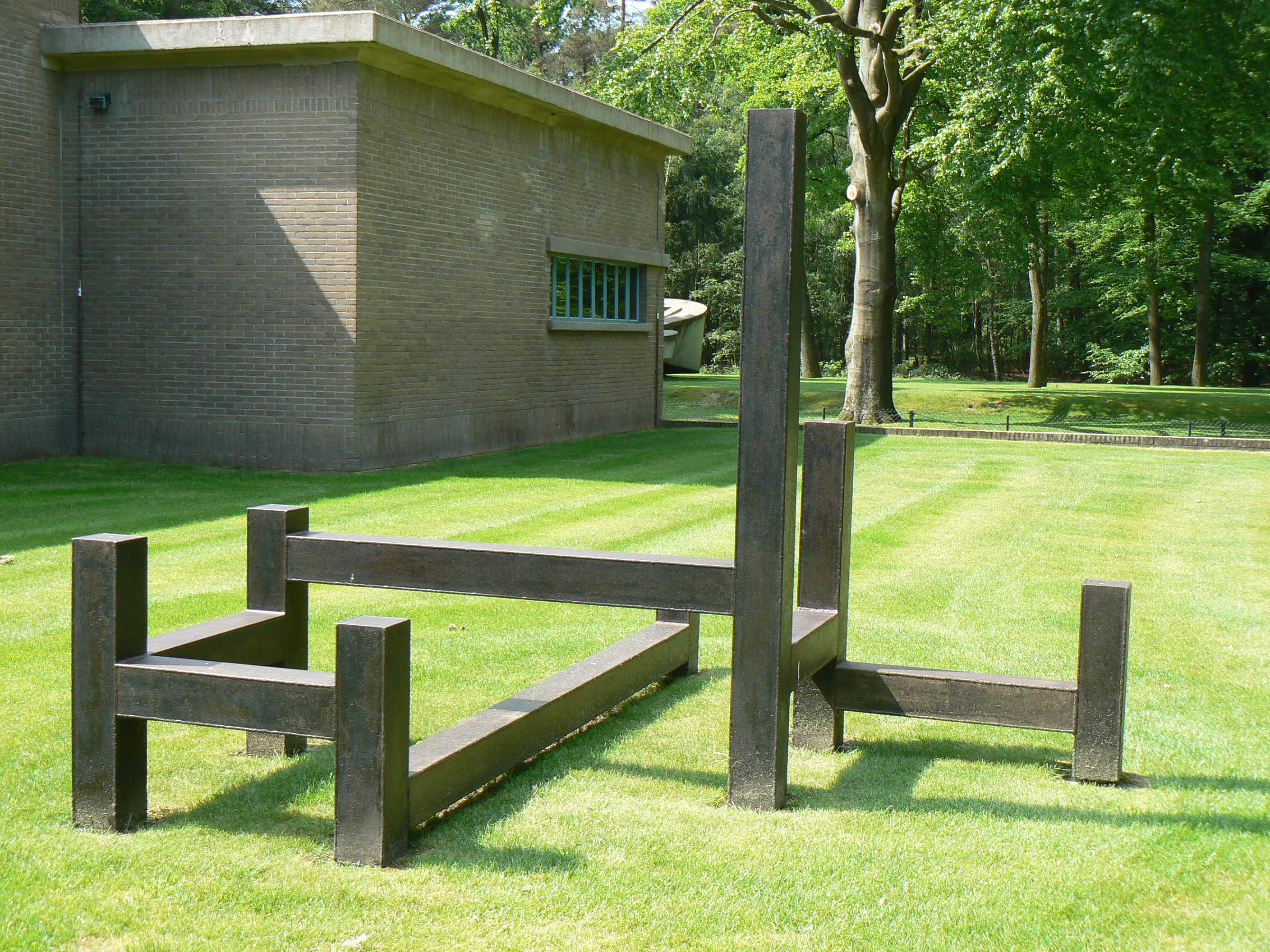 sculpture Grote Auschwitz (1967) by Carel Visser in sculpturepark KMM/The Netherlands